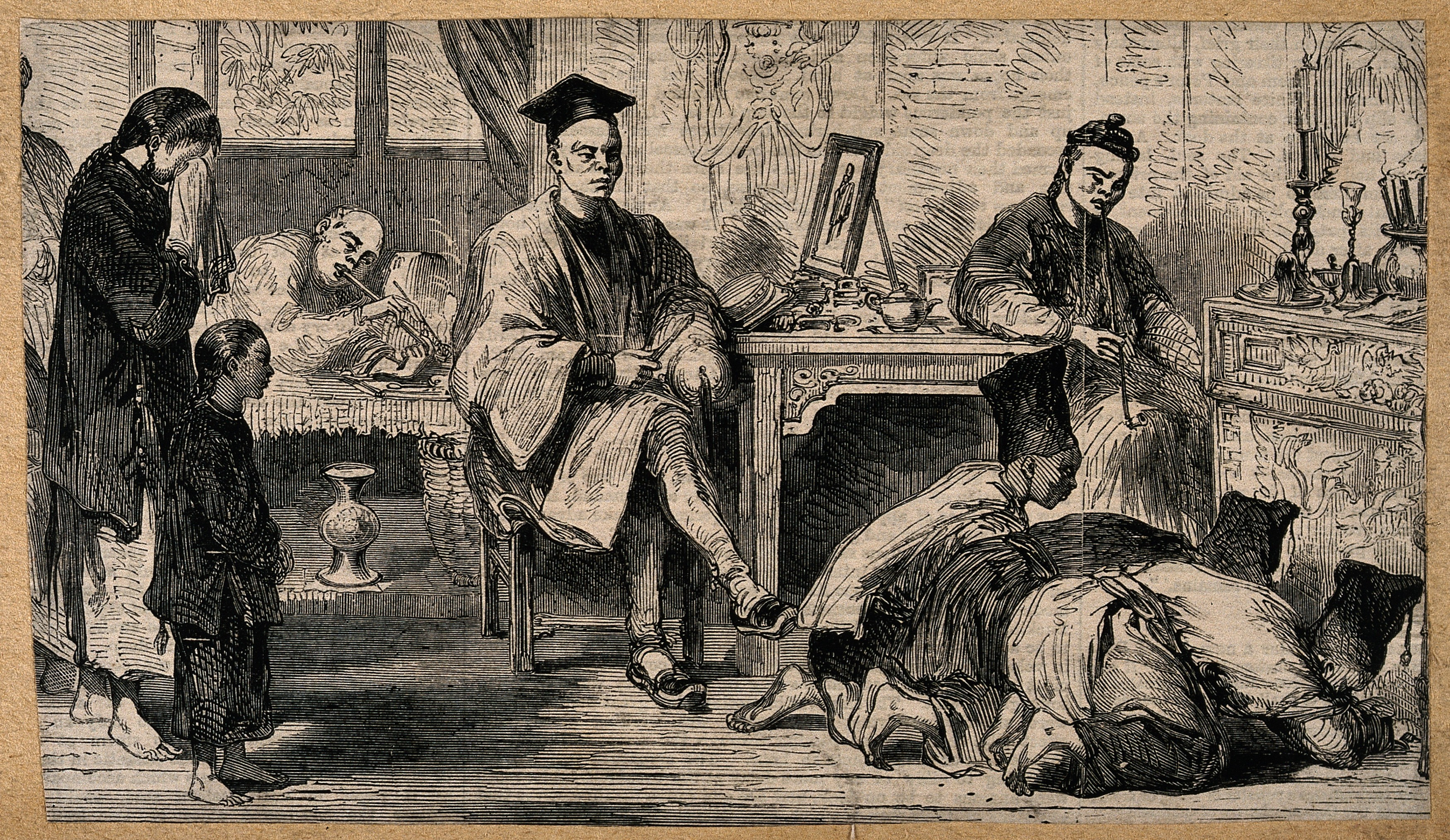 Three people 'kowtowing' to an altar, one woman crying, others smoking opium in paying their last respects to a chinese merchant's wife. Wood engraving. Iconographic Collections